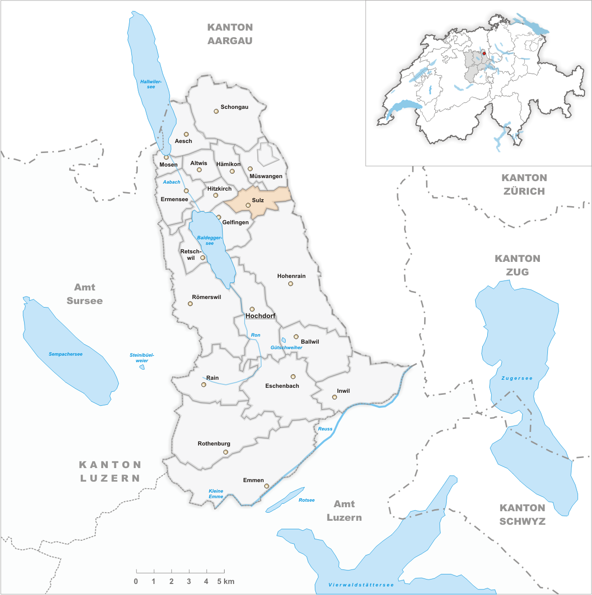 Municipality Sulz